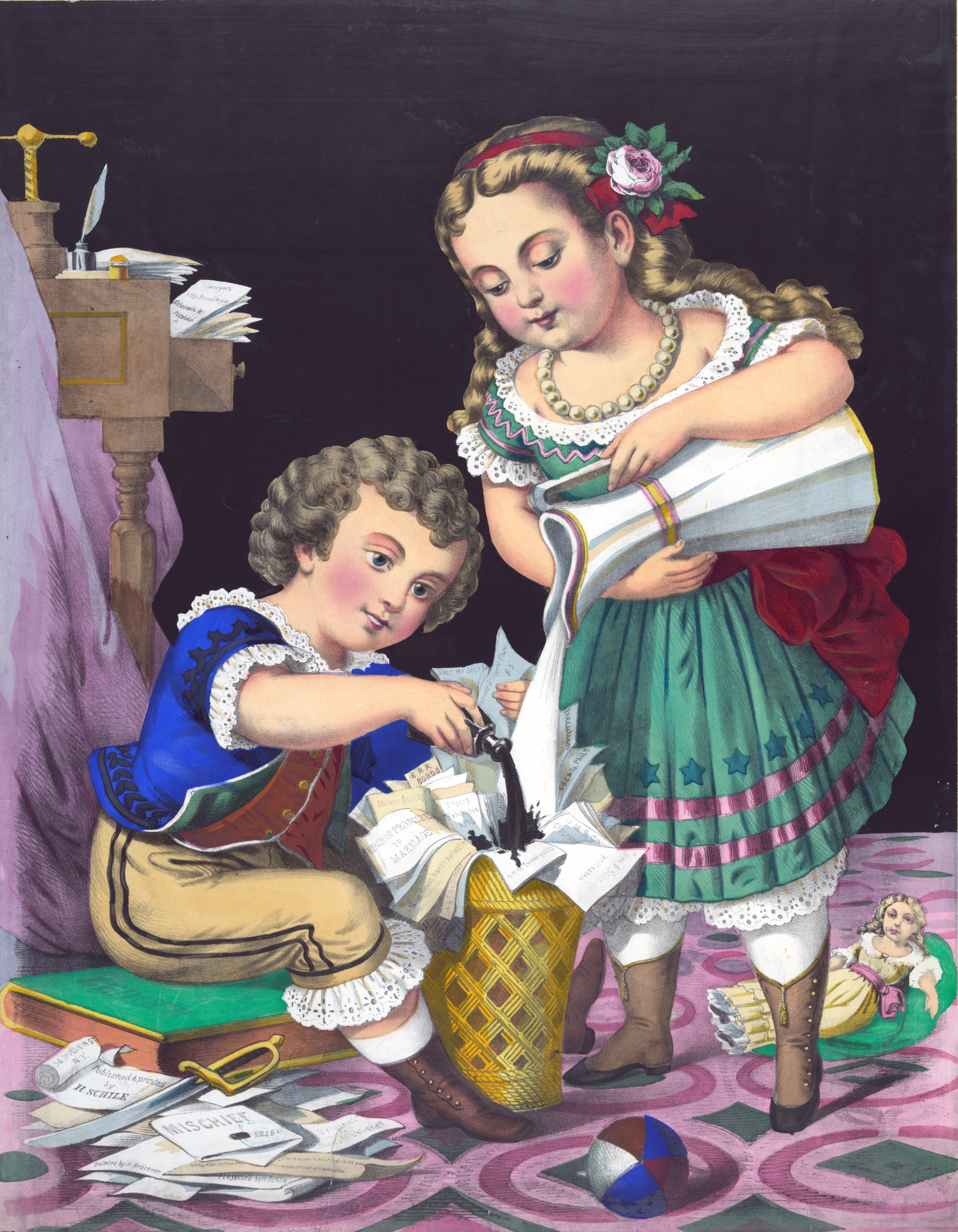 Mischief SUMMARY: Print showing a boy and a girl pouring ink and water on papers they removed from a desk and placed in a wastebasket. MEDIUM: 1 print : lithograph, color. CREATED/PUBLISHED: N.Y. : Published & printed by H. Schile 36 Division St., c1874. E9762 U.S. Copyright Office. Title from item. Original in possession of publisher. Entered accord. to Act of Congress in the year 1874 by H. Schile in the Office of the Librarian of Congr. at Washington. Library has two impressions, one color and one b&w. DLC